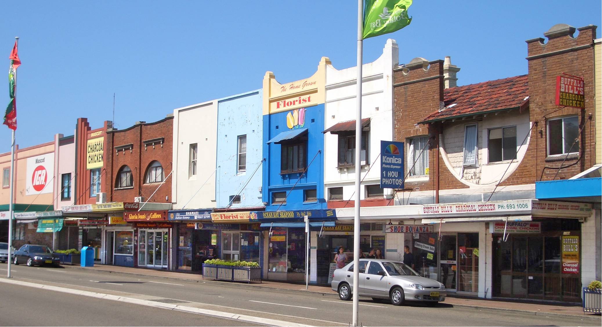 Mascot, Sydney